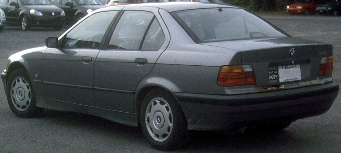 BMW E36 sedan photographed in Montreal, Quebec, Canada.